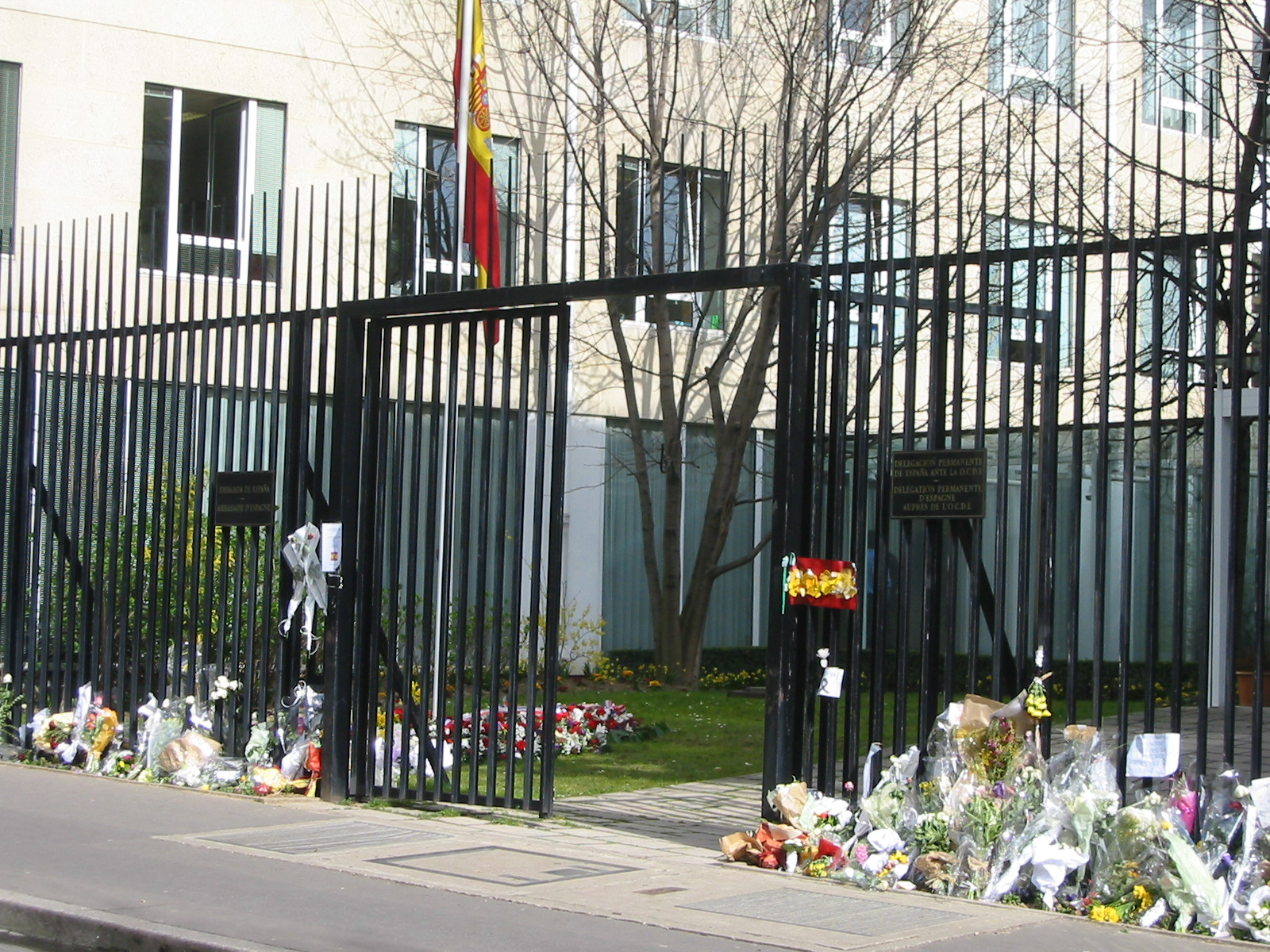 The Spanish embassy in Paris after the madrid train bombing.